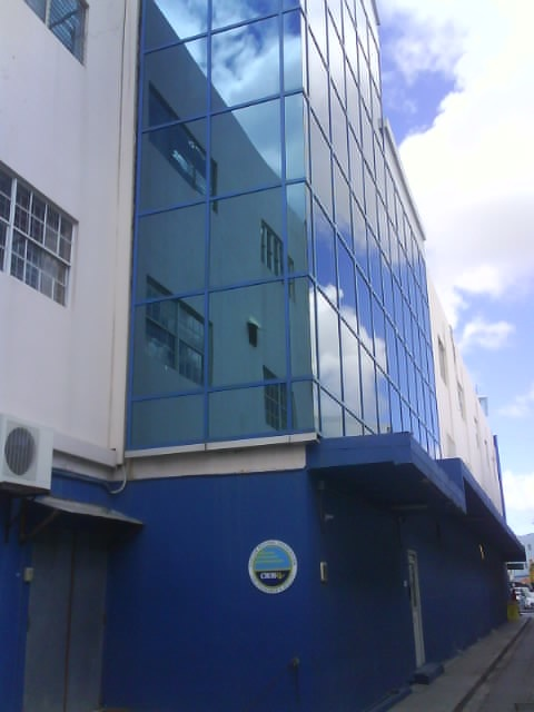 Building for the CARICOM Regional Organisation for Standards and Quality (CROSQ) on Philadelphia Lane in Bridgetown, Barbados.